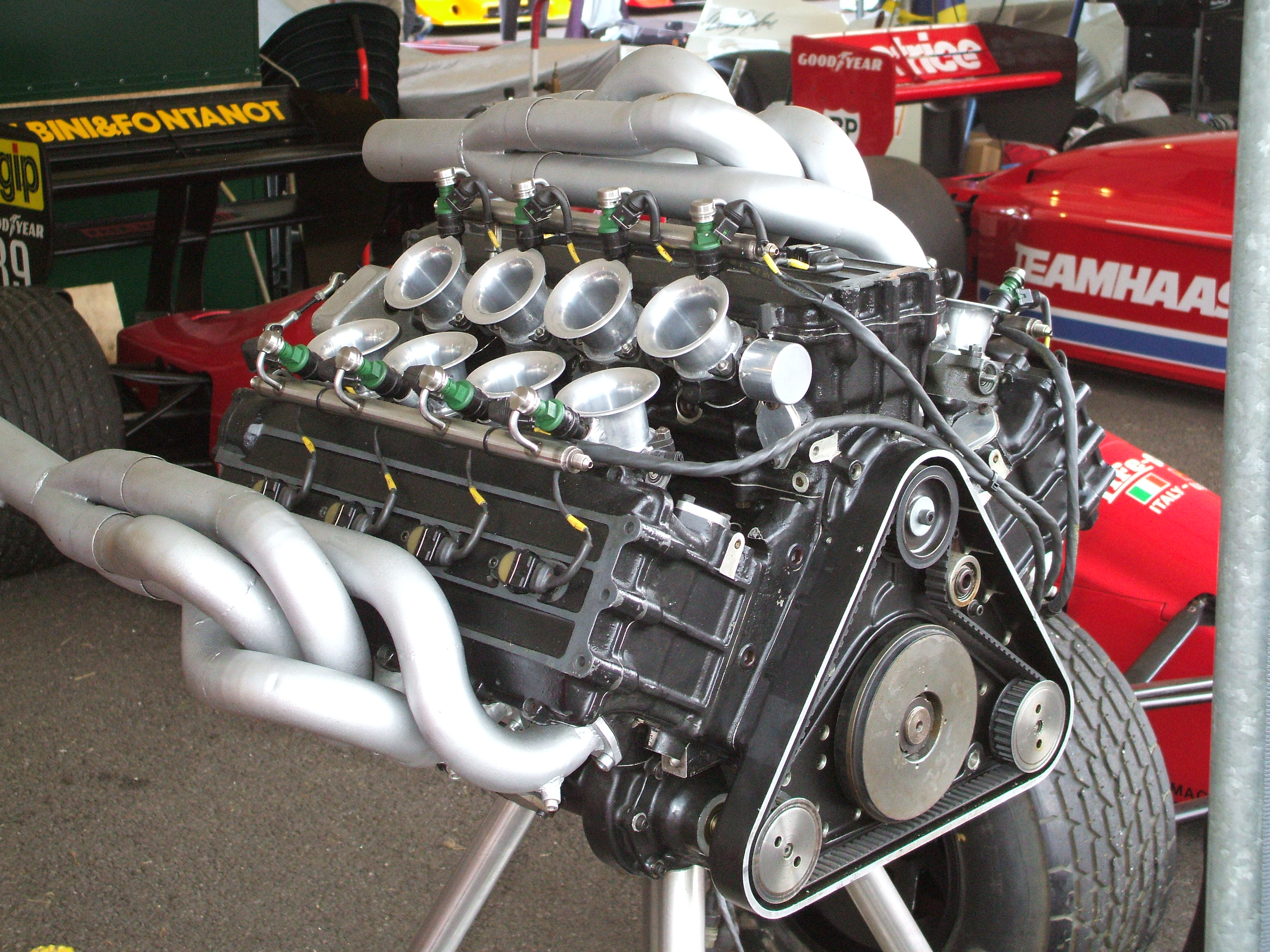 W12 3.5 Formula One engine from the Life F1 car. Photo taken at the Goodwood Festival of Speed 2009